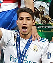 Champions League final in Kiev: 13th Real Madrid Cup with Achraf Hakimi